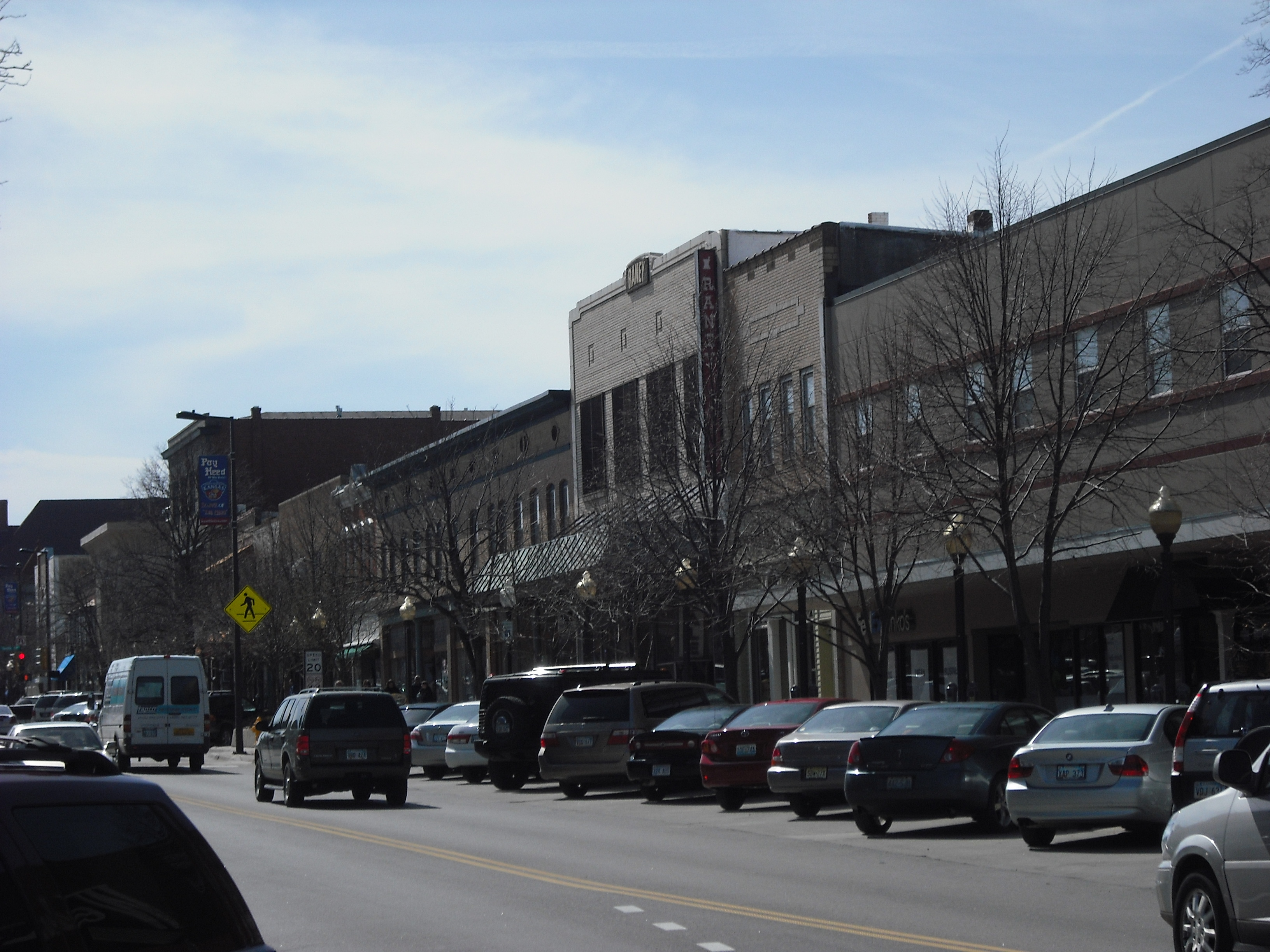 The west side of the 900 Block of Massachusetts in Lawrence, KS. On NRHP.